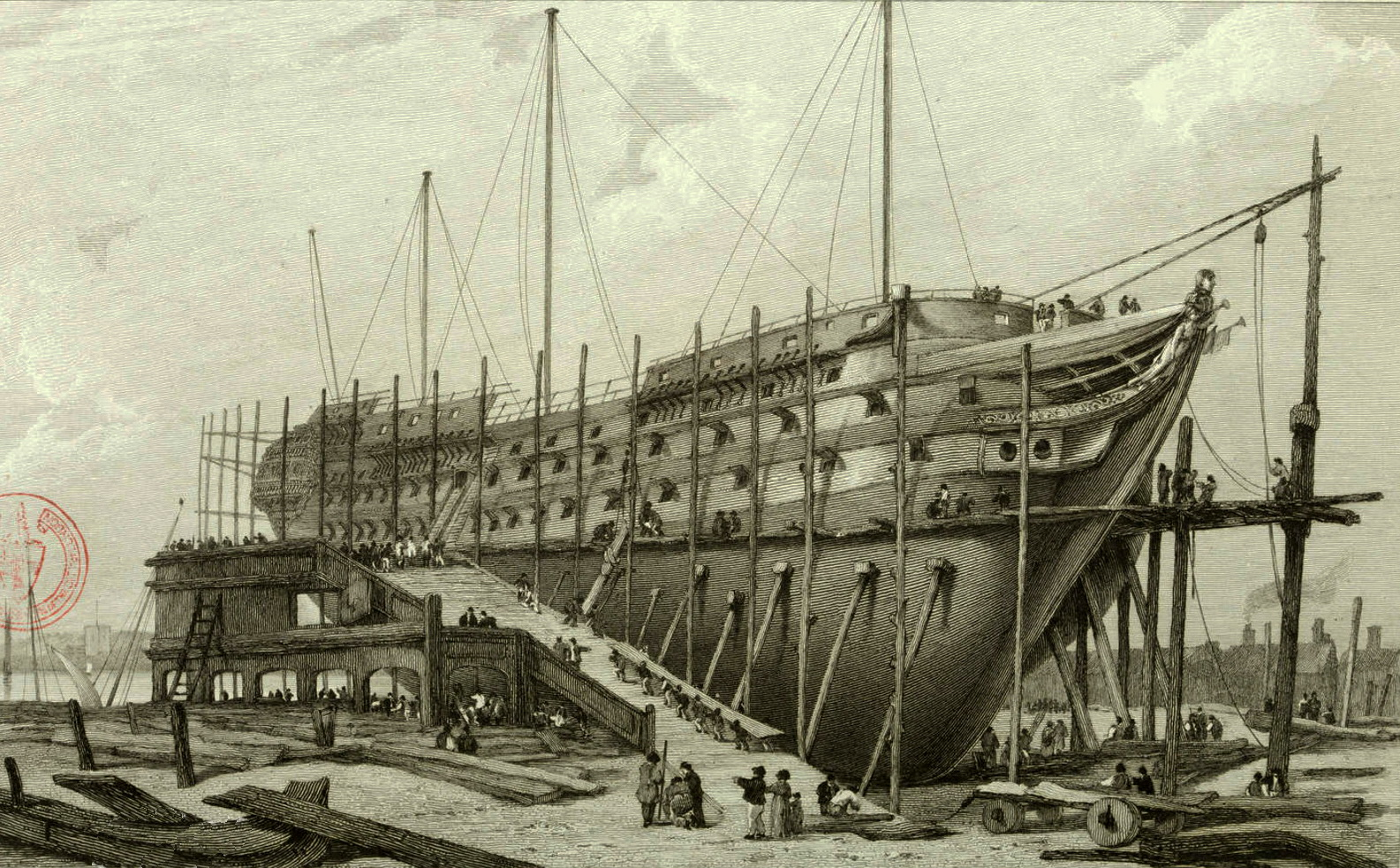 View of Woolwich Dockyard showing 'The Nelson' on the stocks (1815). Engraving by William Bernard Cooke after a drawing by Louis Francia (1772-1839). Collection of the London Metropolitan Archives.